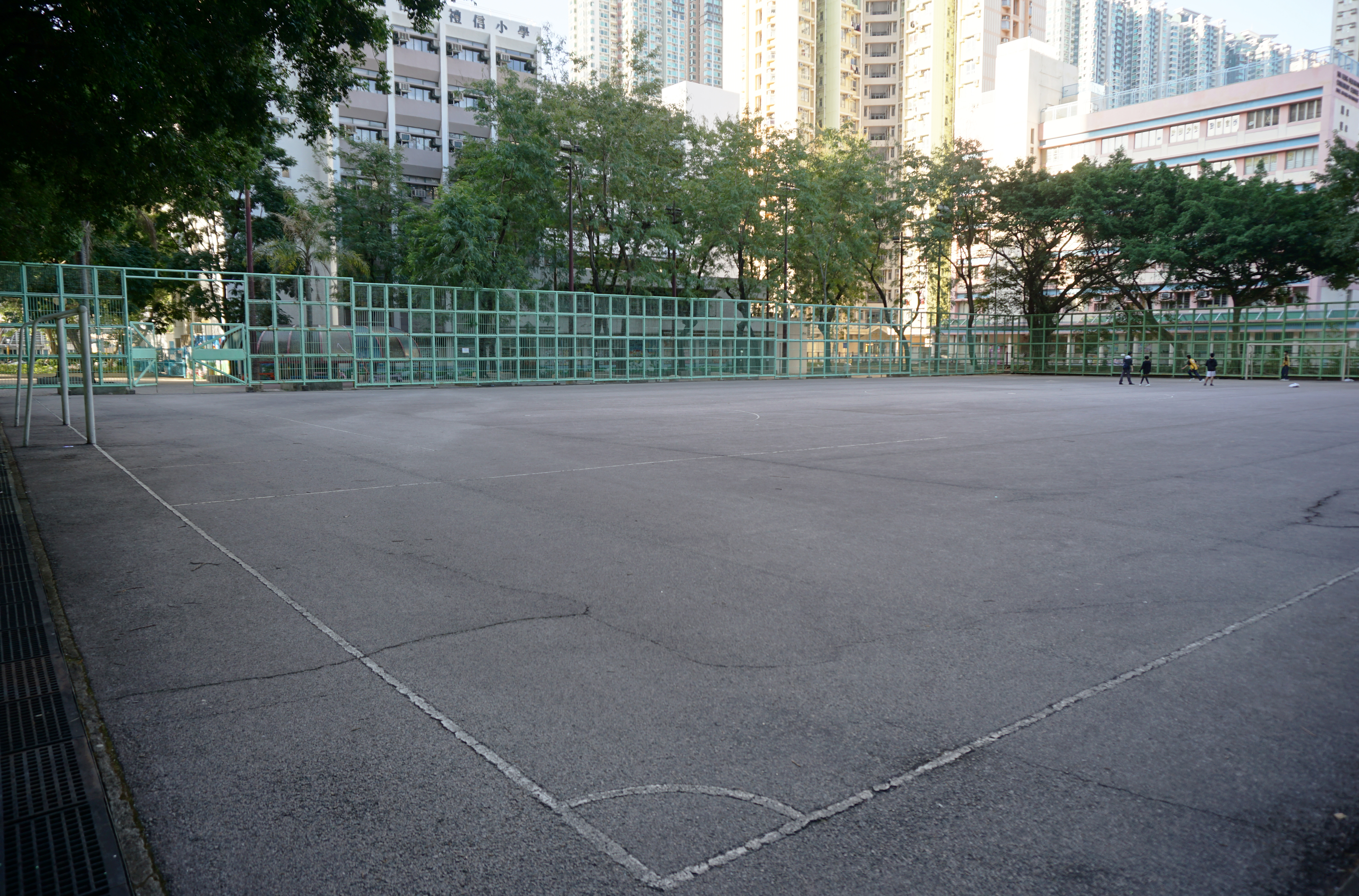 Hin Keng Estate in Tai Wai, Hong Kong.